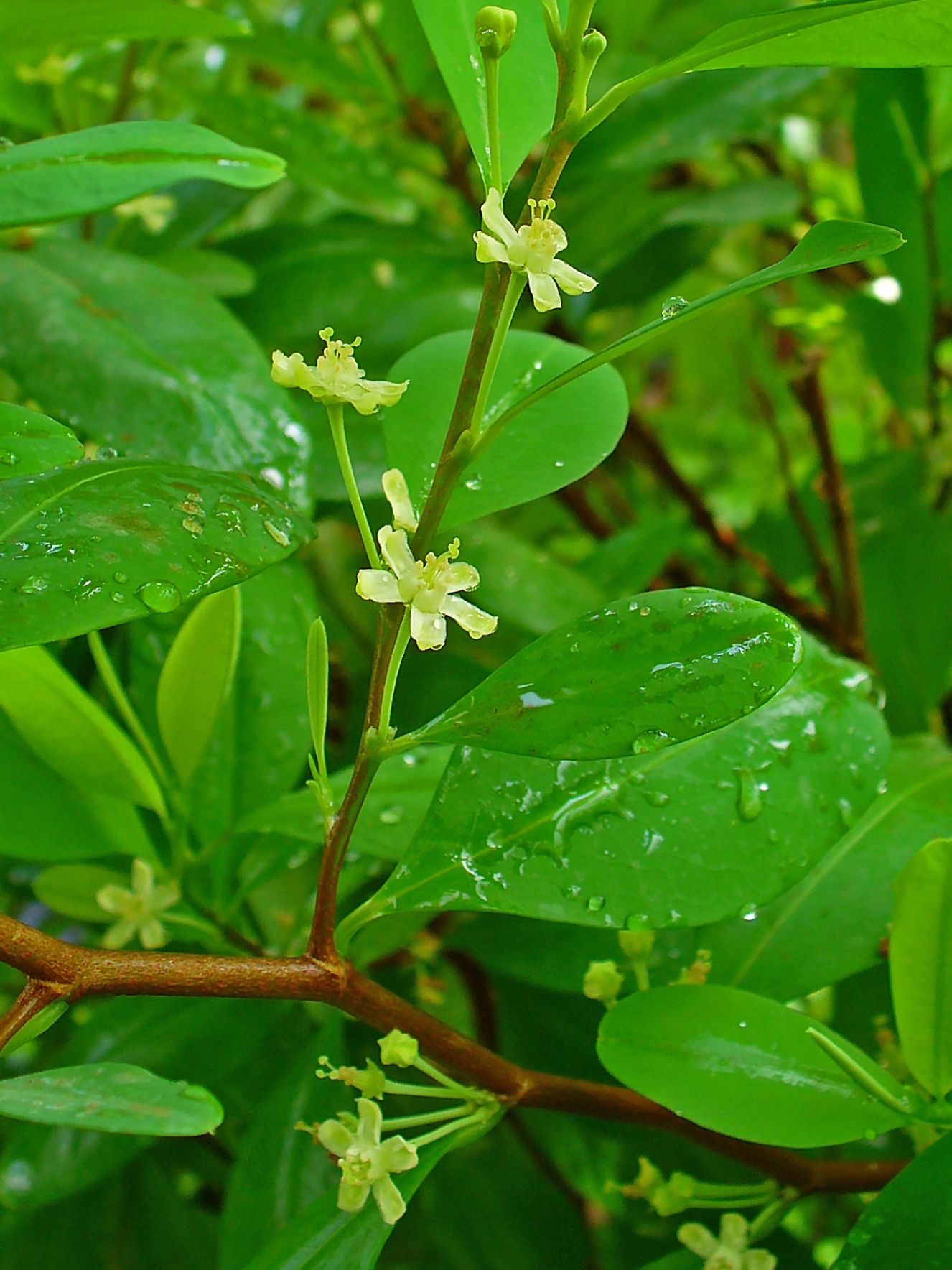 Erythroxylum coca, Erythroxylaceae, Coca, flowers. The alkaloid cocaine is used in homeopathy as remedy: Cocainum purum (Cocain-p.)